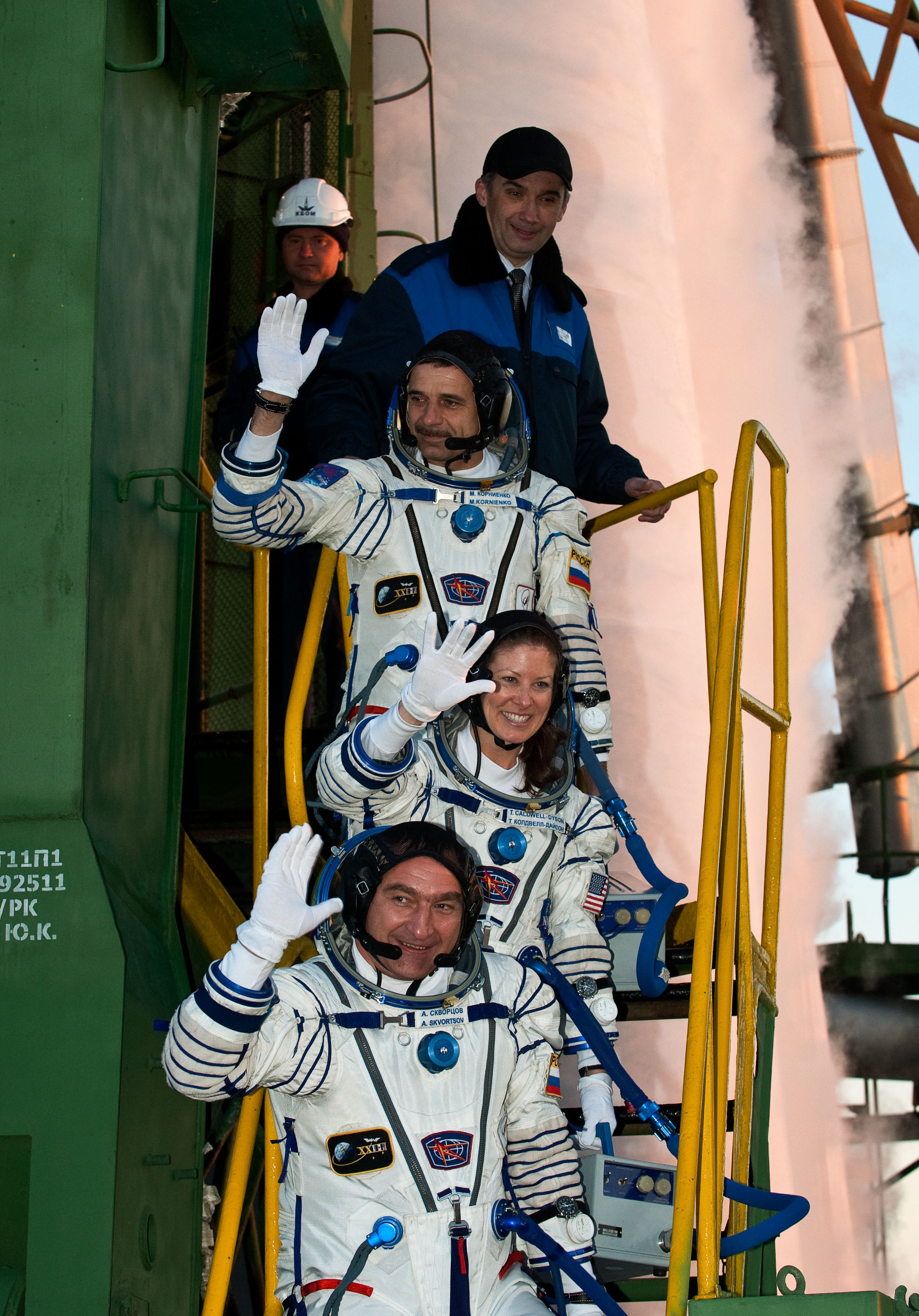 Three Expedition 23 crew members wave farewell from the bottom of the Soyuz rocket at the Baikonur Cosmodrome in Baikonur, Kazakhstan, Friday, April 2, 2010. Cosmonauts Alexander Skvortsov (bottom of steps), Soyuz commander and Expedition 23 flight engineer; and Mikhail Kornienko, flight engineer, along with NASA astronaut Tracy Caldwell Dyson, flight engineer, launched in their Soyuz TMA-18 rocket from the Baikonur Cosmodrome on April 2, 2010 at 10:04 a.m. (Kazakhstan time)